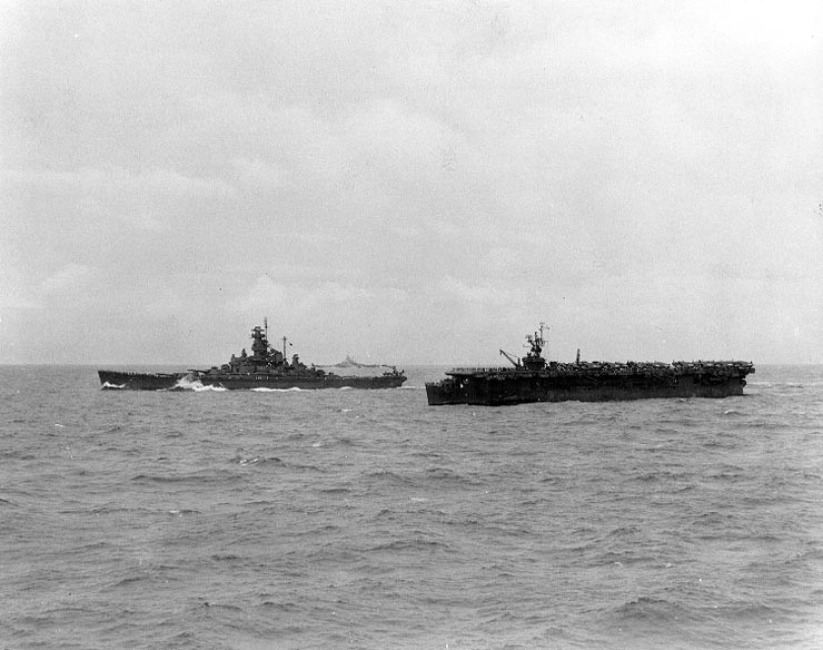 Gilberts Operation, November 1943: U.S. Navy ships of Task Force 50 en route to the Gilberts and Marshalls to support the invasions of Makin and Tarawa, 12 November 1943. Ships are (l-r): USS Alabama (BB-60); USS Indiana (BB-58), in the distance, wearing dazzle camouflage; and USS Monterey (CVL-26).